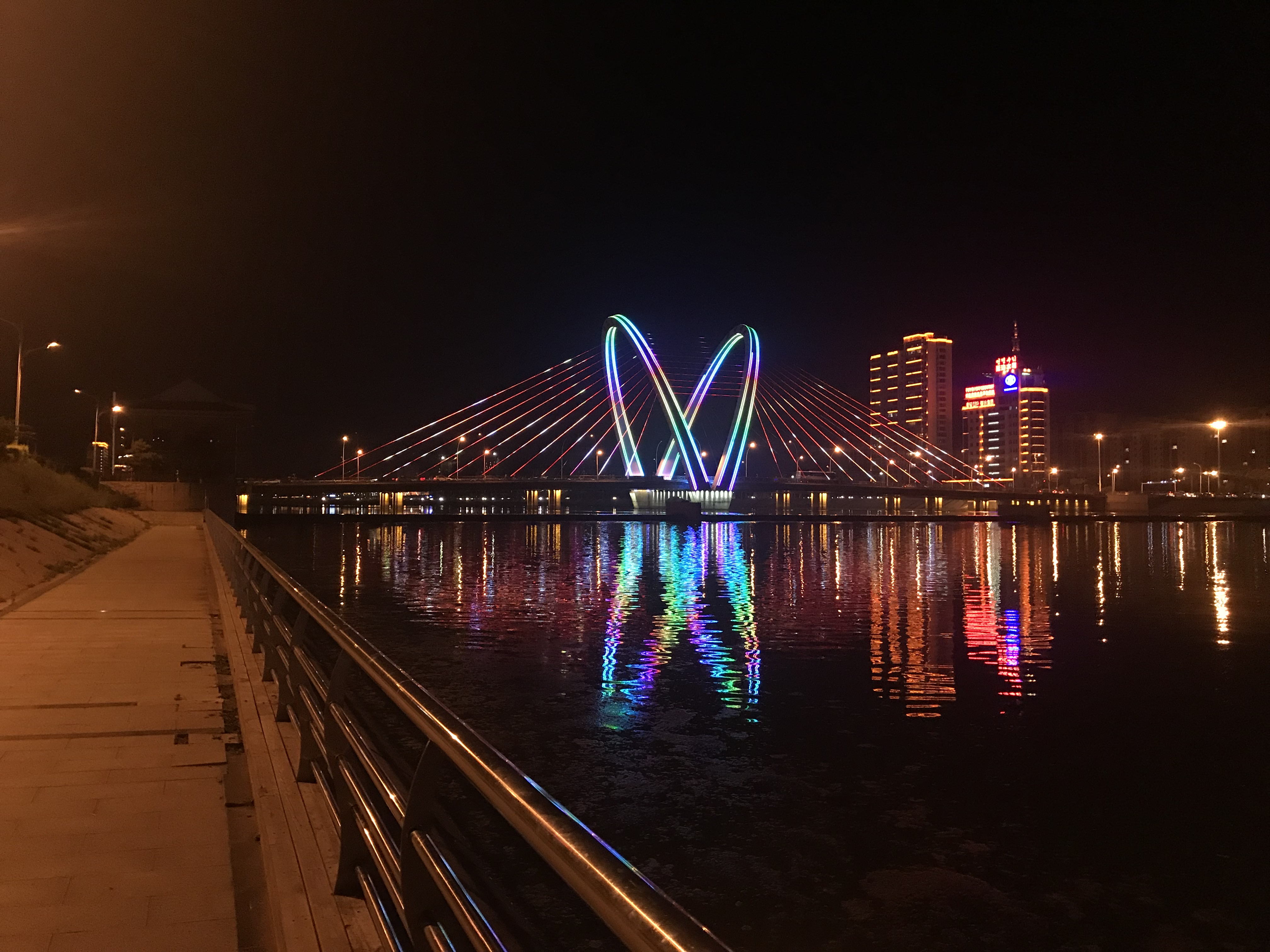 Tianchi Bridge (Yanji City) - CCTV old logo